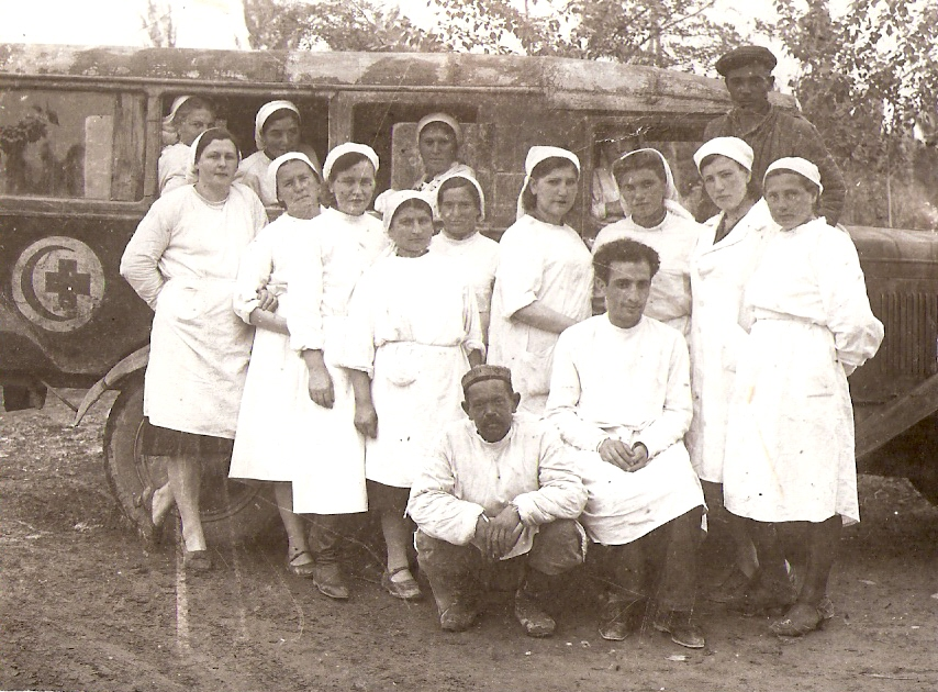 This is a picture that I, Gloria Gaddar, took of Grigory Grigoryants and his evac crew.